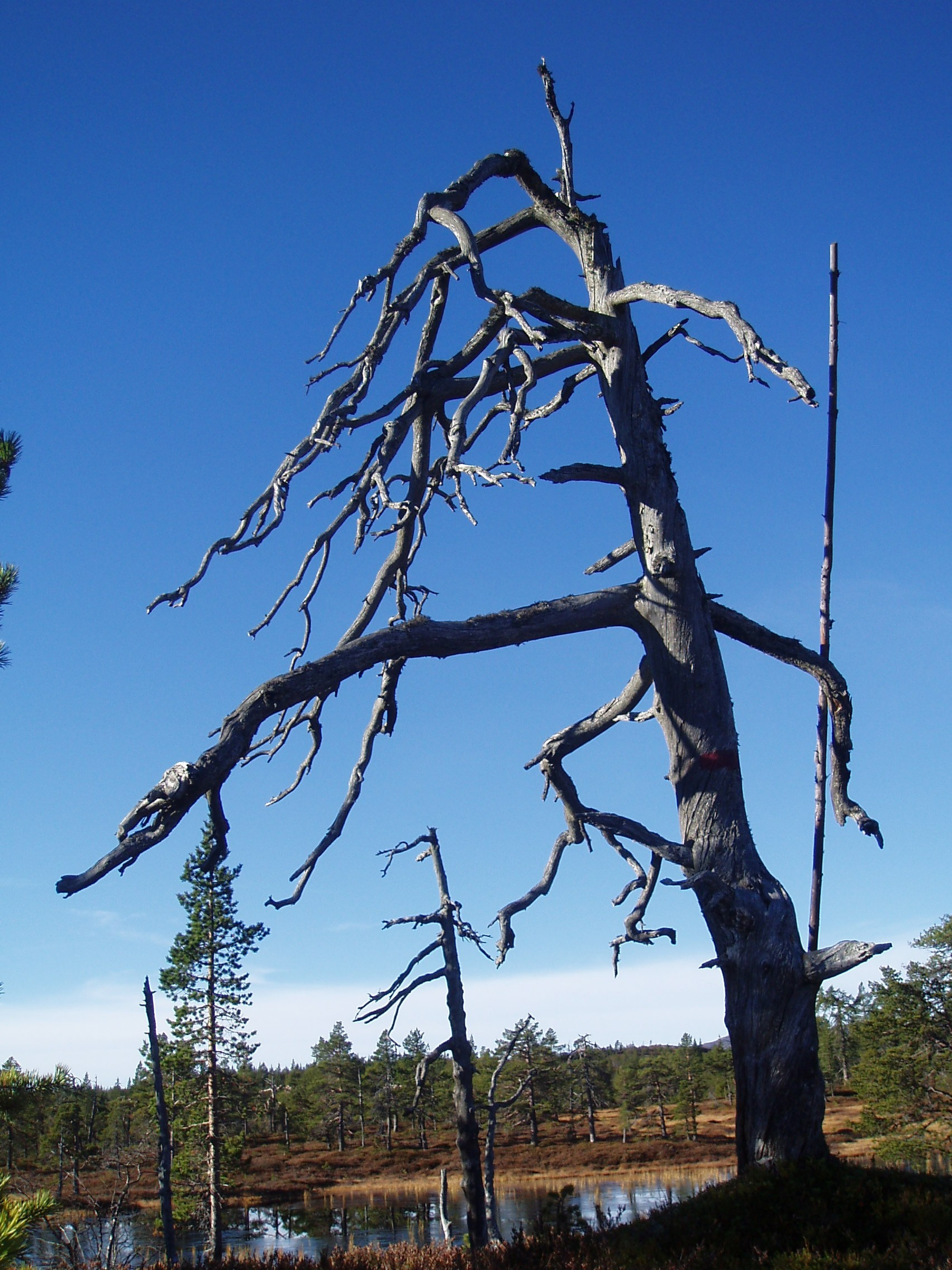 Dead tree (Pinus sylvestris) in the mountains of eastern Norway.